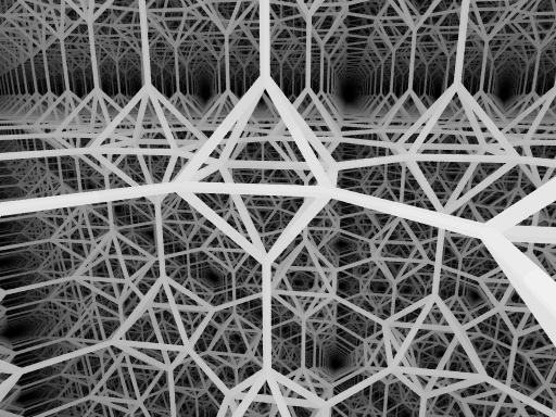 The scene consists of four mirrors and two cylinders.